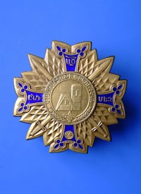 NKR Martakan khach 1st order